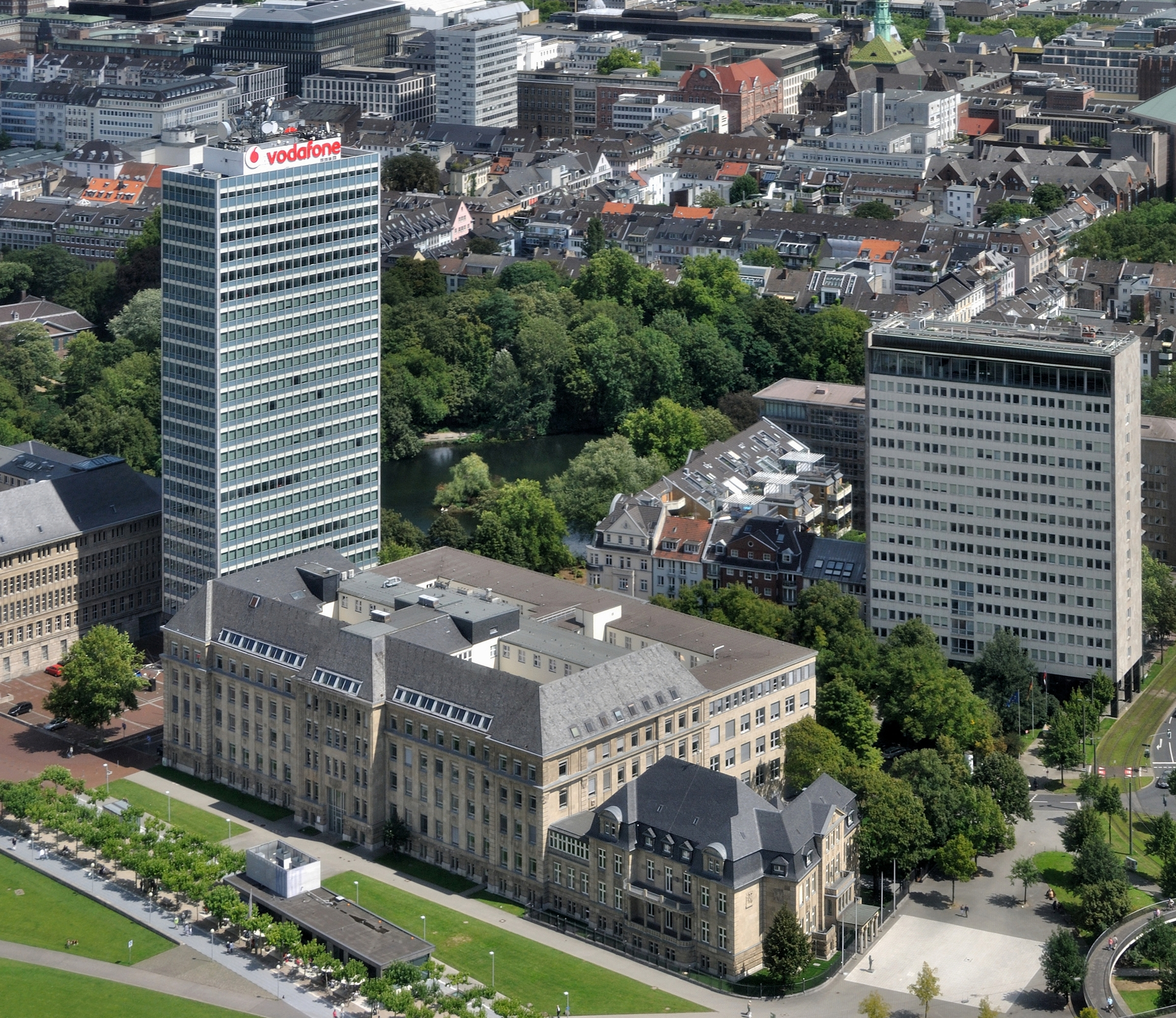 Düsseldorf (North Rhine-Westphalia, Germany) – Carlstadt – Vodafone Tower (left), Landeshaus (middle) and Villa Horion (right) This image shows a heritage building in Germany, located in the North Rhine-Westphalian city Düsseldorf (no. see Annotations). This photograph was taken with a Nikon D3000